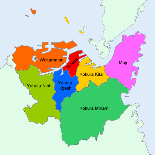 Map of wards of Kitakyūshū